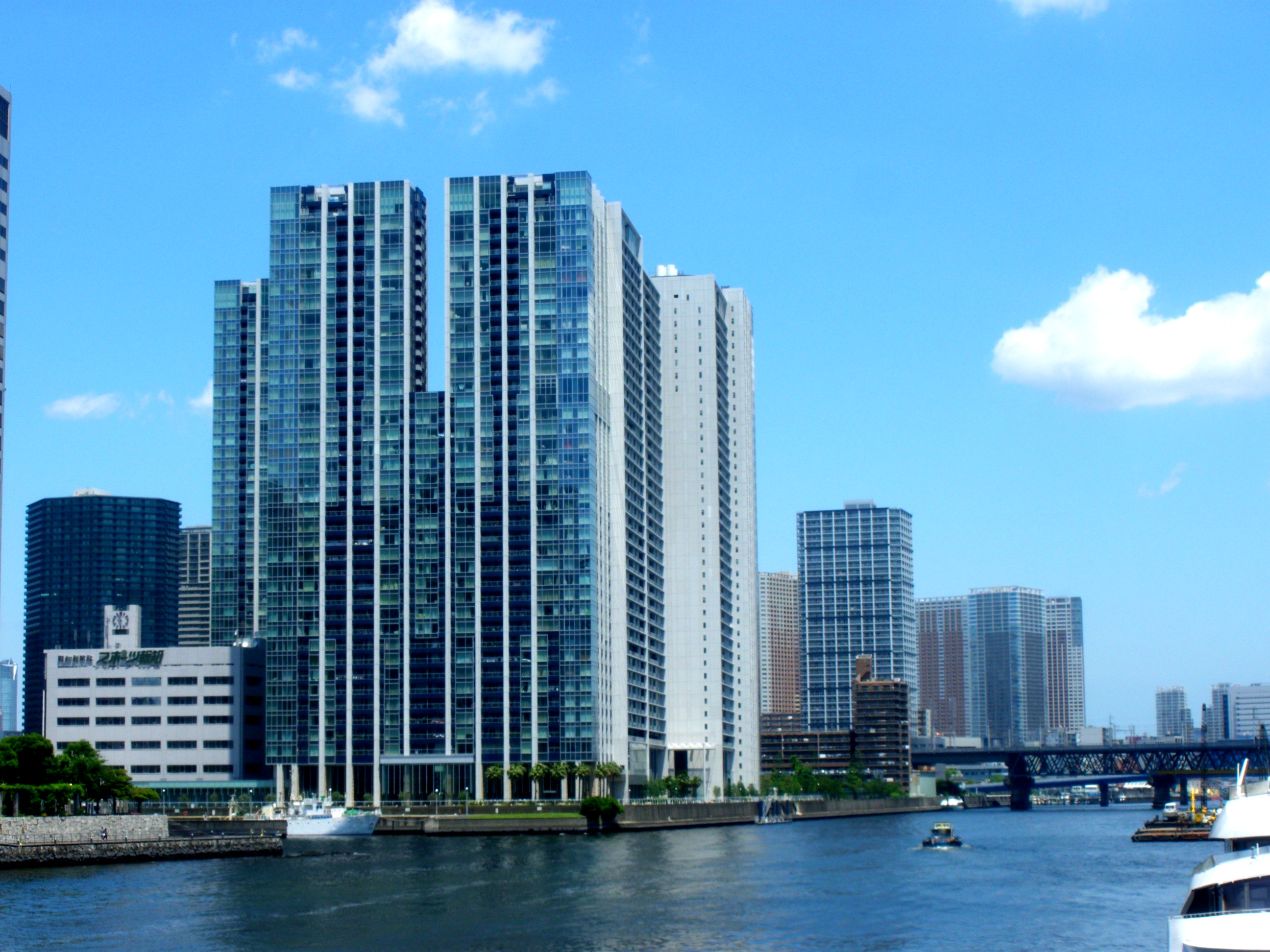 A photo of an overview of World City Towers seen from Shinagawafuto Bridge, Shinagawa-ku, Tokyo, Japan.